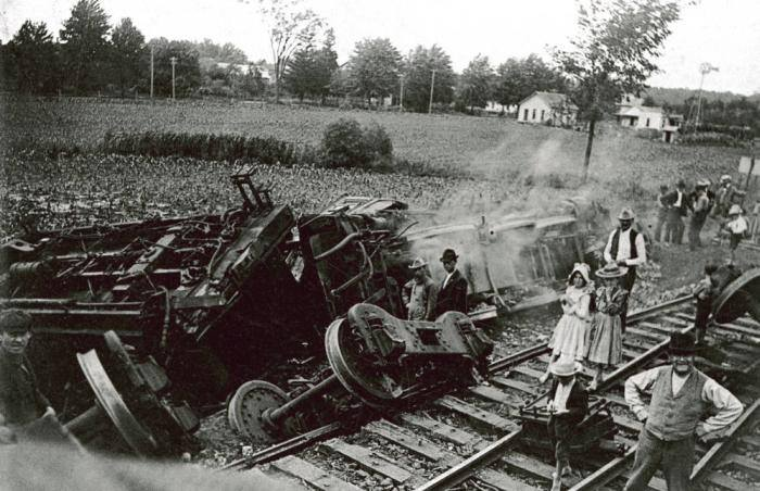 Paper car wheels consisted of compressed paper sandwiched between steel plates (note the nuts and bolts on the wheel face) pressed into a flanged rim. The thought was that it produced a better and quieter ride, but they often failed resulting in serious derailments.